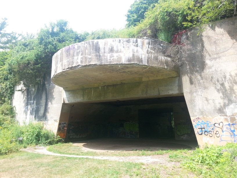 16-inch gun emplacement, Battery Seaman, Fort Dearborn, Odiorne Point State Park, New Hampshire